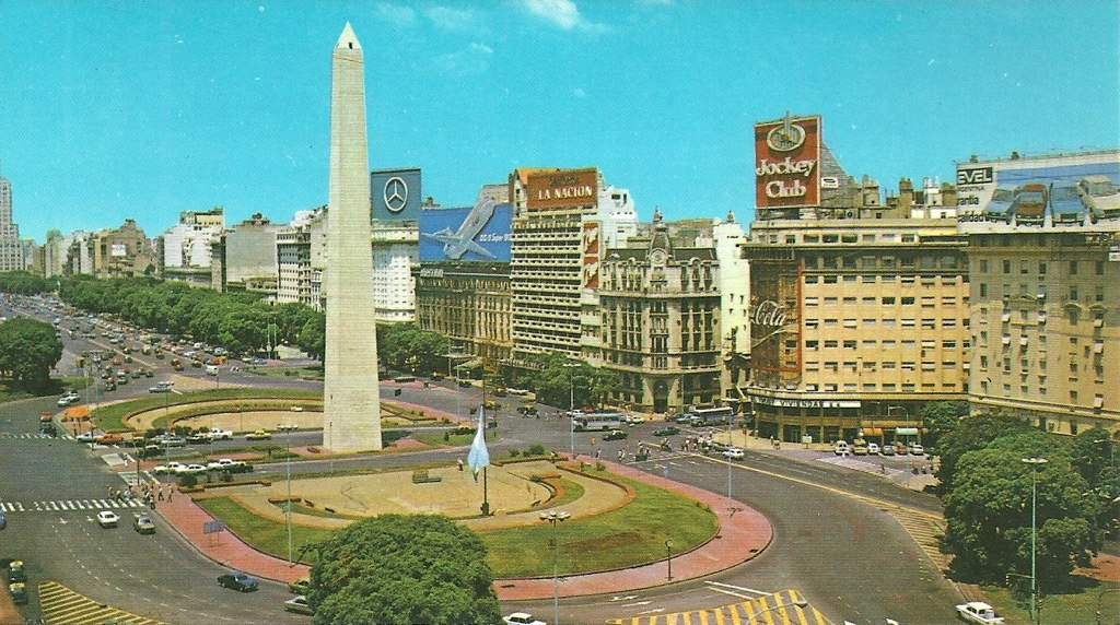 The Plaza de la República in Avenida 9 de Julio. The Obelisk is a National Historic Monument, built in 1936 to commemorate the 400th anniversary of the founding of the city.